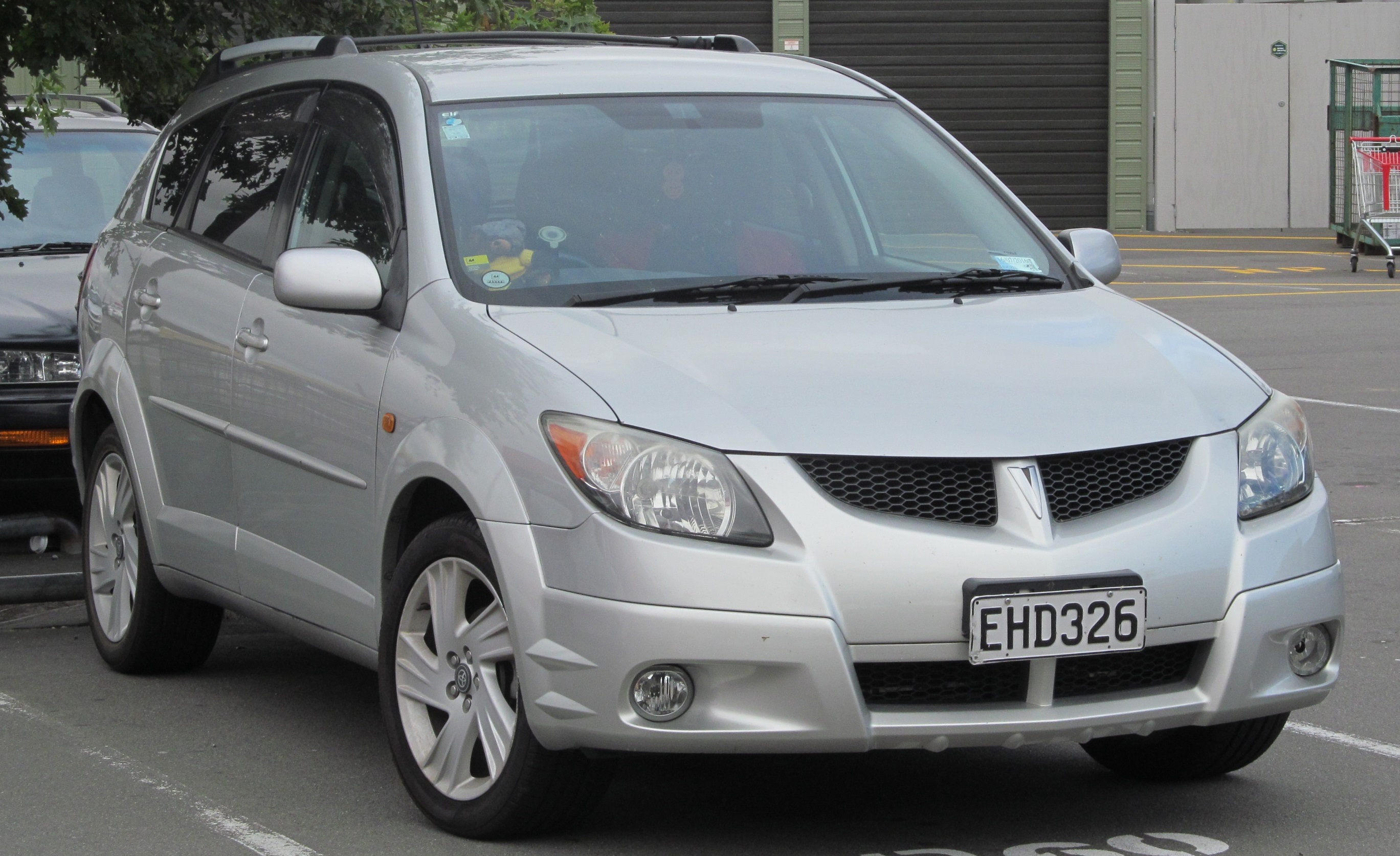 2004 Toyota Voltz (Japan) Vehicle registration enquiry resultsJurisdictionNew ZealandRegistrationEHD326Chassis code7A8H6490707003824 (ZZE137-0003824)Engine code2ZZ-0135631Year of manufacture2004